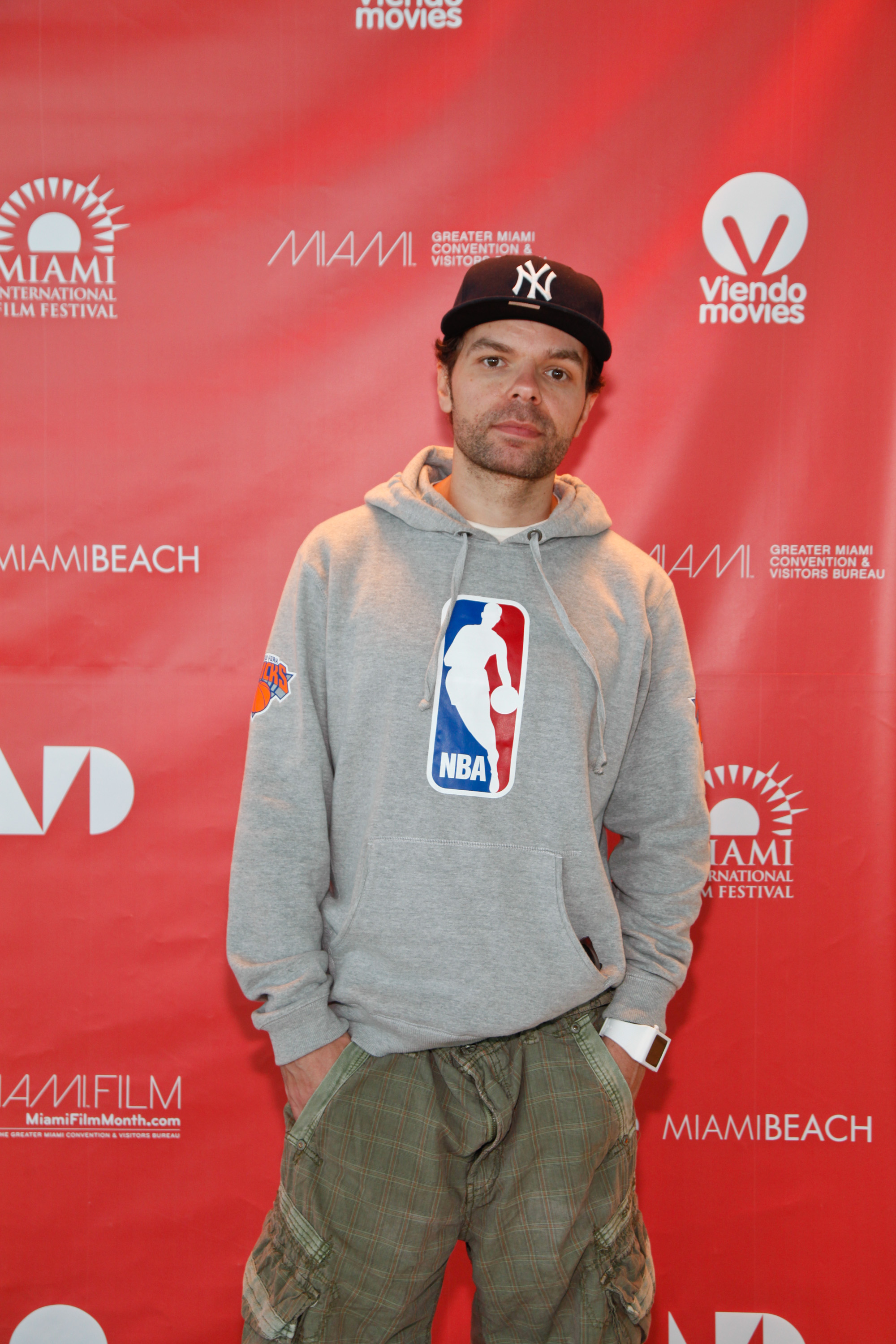 Lemon Andersen at the 2012 Miami International Film Festival presentation of "Lemon" at Regal Cinemas South Beach